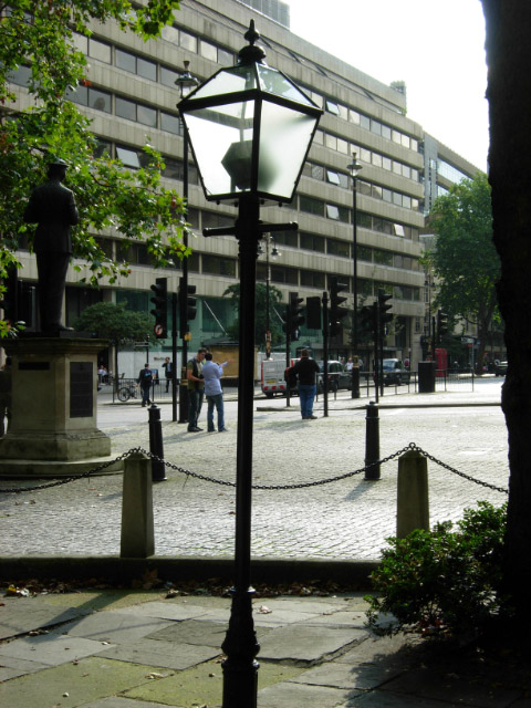 The Strand Looking along the Strand from outside St Clement Danes church; the uninspiring office block on the south side is currently undergoing refurbishment.